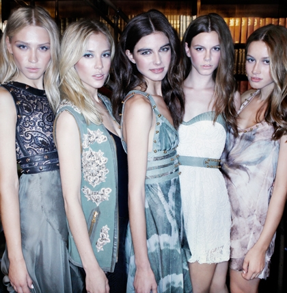 Kristian Aadnevik backstage SS13